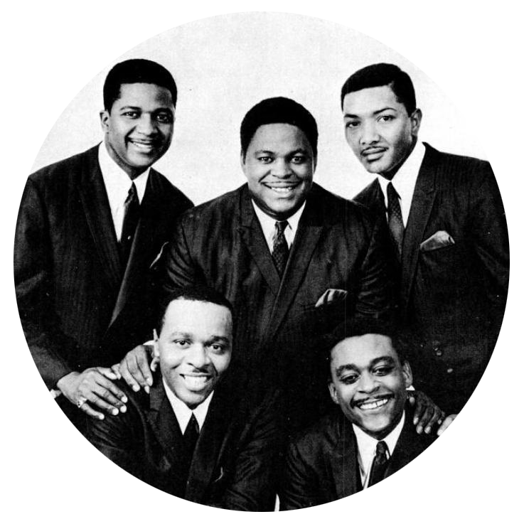 Trade ad for The Dells's single "O-O, I Love You".To better adapt it to his respective Wikipedia article, the ad was cropped and cleaned in a graphics editing program. The original can be viewed at the source below.